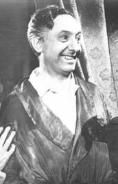 Julián Bourges-actor argentino